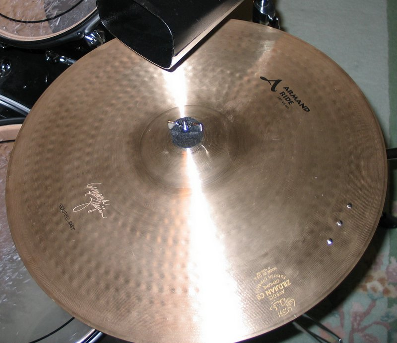 This picture is of a 19" Zidjian Armand Ride.